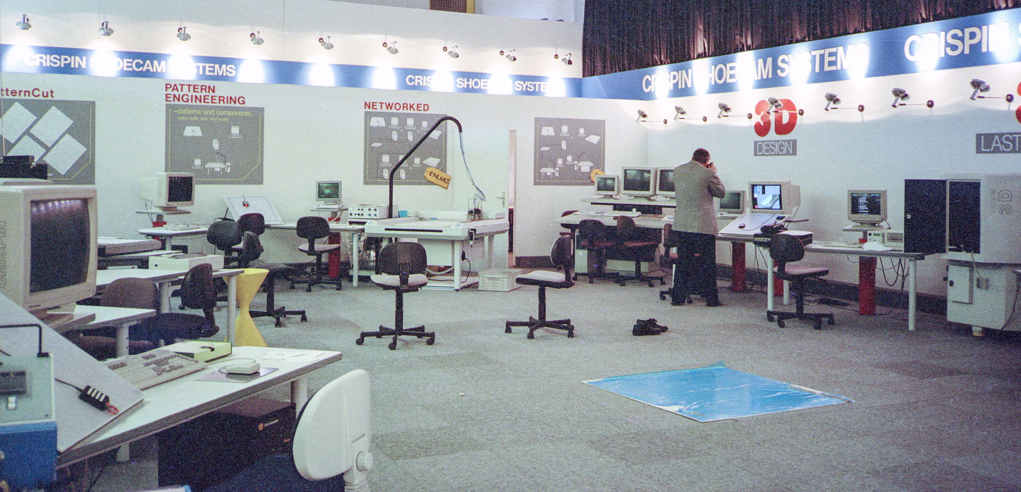 The extensive elements of the Crispin shoe CAD/CAM section of the United Shoe Machinery stand at fair at Pirmasens, Germany, late 1990s. Notable items include the 3D scanner on the right for scanning and digitising shoe lasts, the CAD stations for designing shoe components, and the X-Y cutter for cutting patterns for shoe components in the middle.